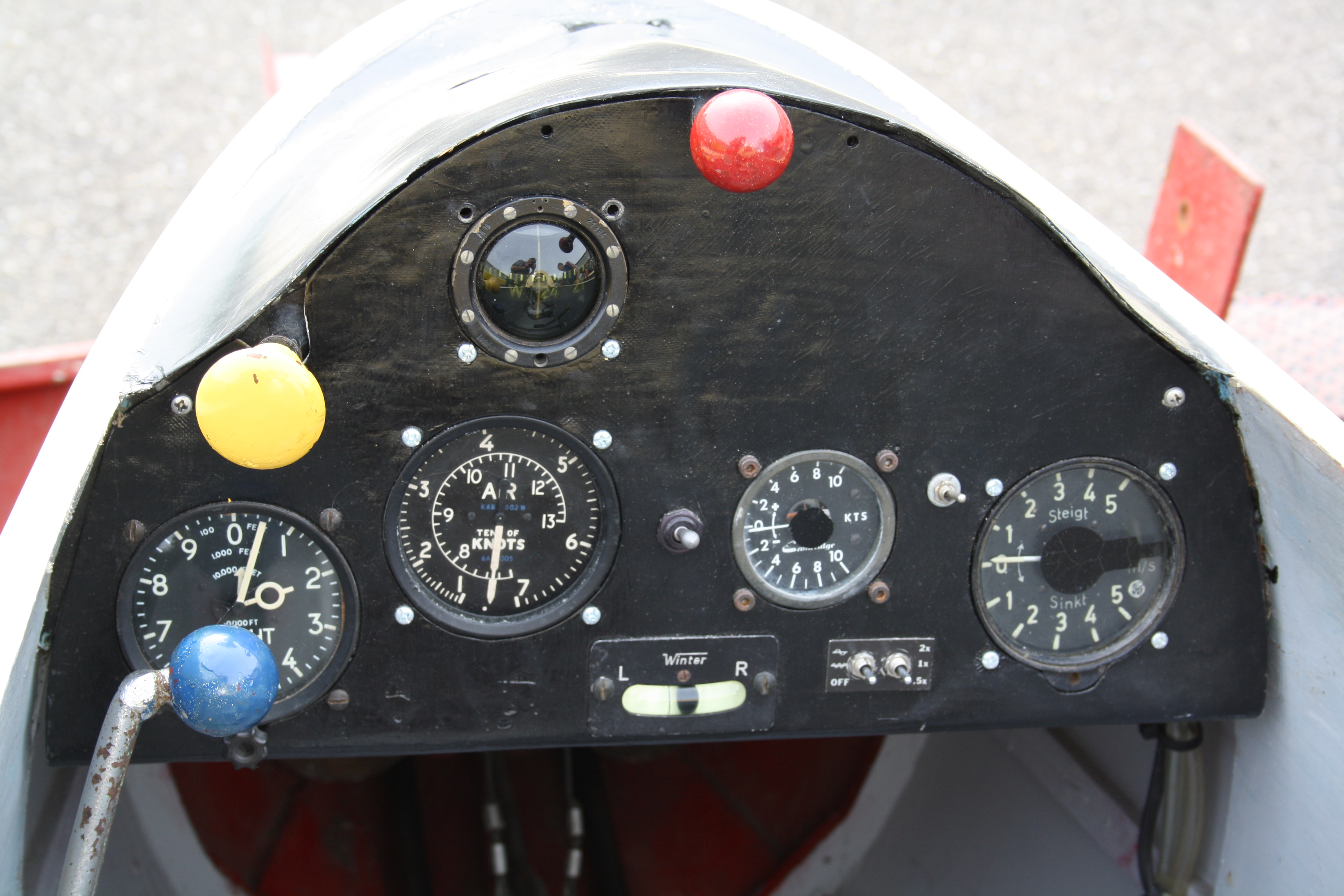 Cockpit of the sailplane Geier I